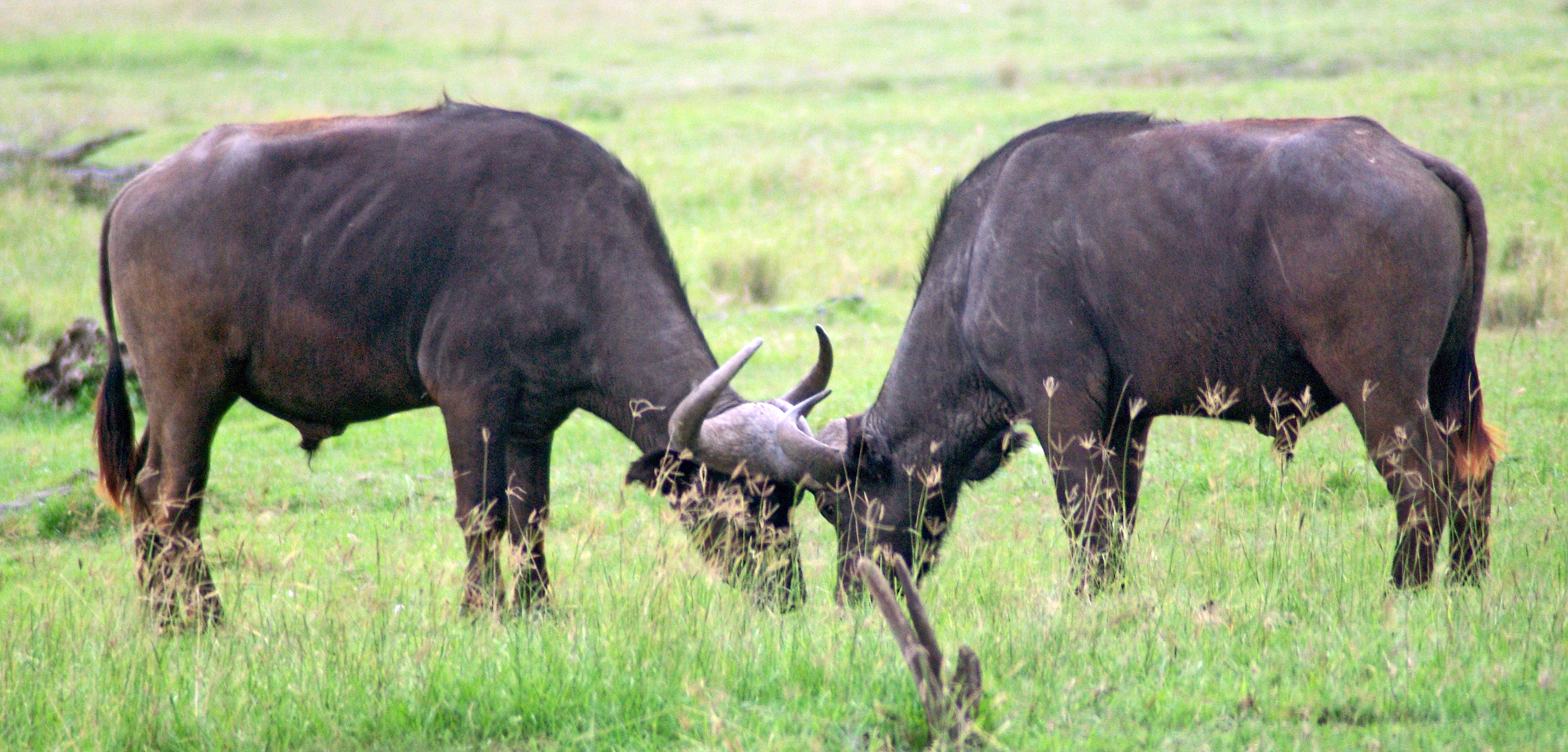 Two male African Buffaloes, Syncerus caffer, Lake Nakuru, Kenya, squaring off. They just shoved once or twice, and then one—I think the one on the right—backed away. The time stamp is 10 hours too early.